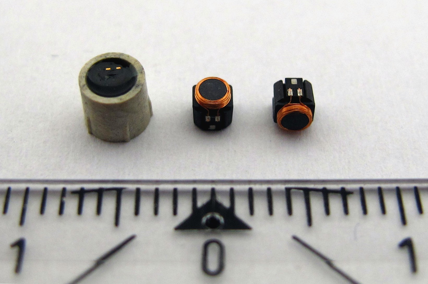 Passive RFID tags for 13.56 MHz according to ISO15693. Size approx. 2mm*2mm*3mm. Beside the copper coil and the ferrite core the soldered RFID mirco chip is shown. On the left a RFID chip in a small plastic case for press-in installation ISO15693